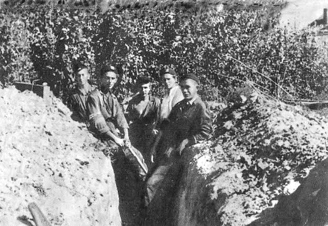 Warsaw Uprising: Soldiers from O3 Company of "Baszta" Regiment in Mokotów District: first from right is Corporal "Sęp".